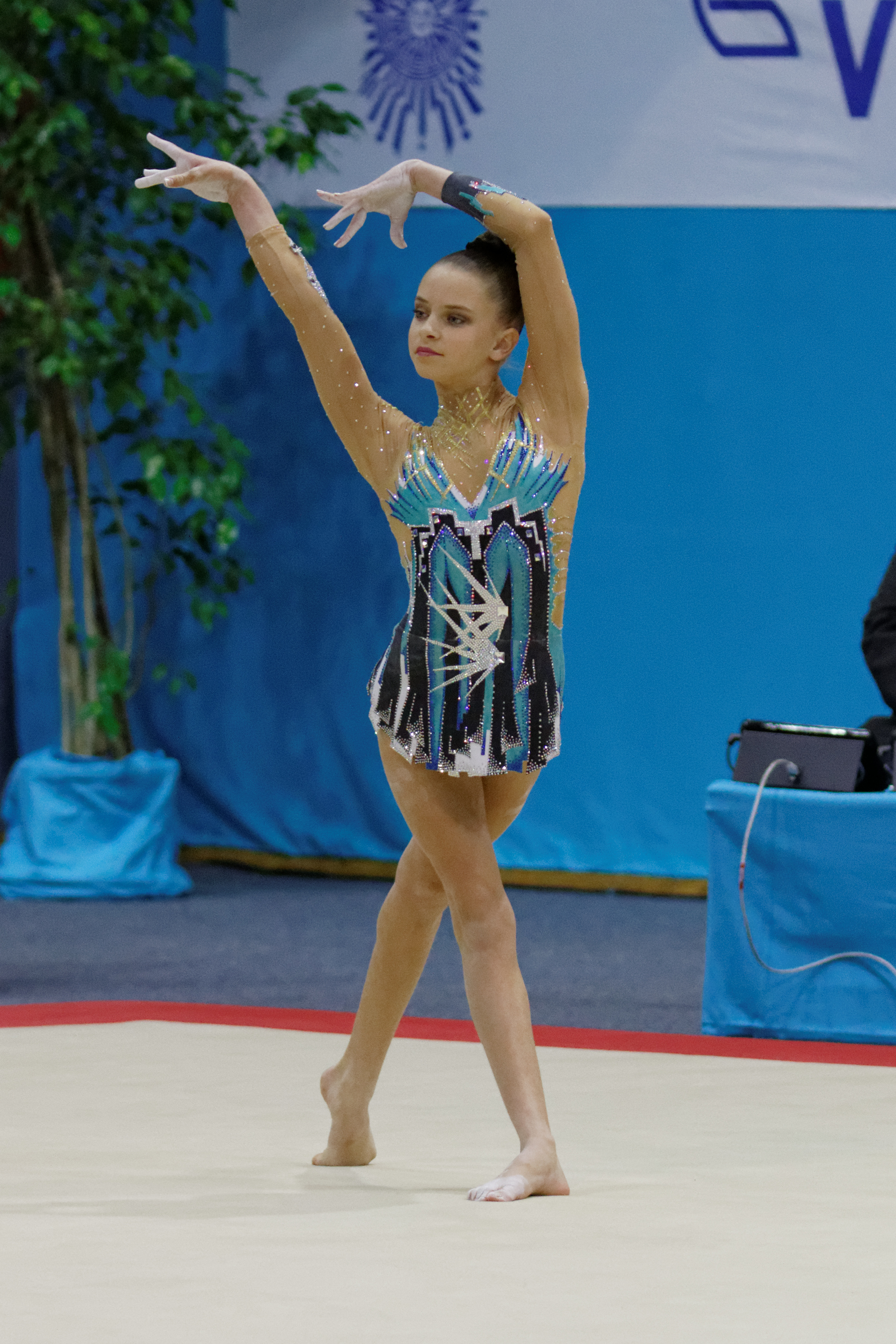 2014 Acrobatic Gymnastics World Championships, 10th-12 July, Levallois-Perret, France. Qualifications: mixed pair. USA.